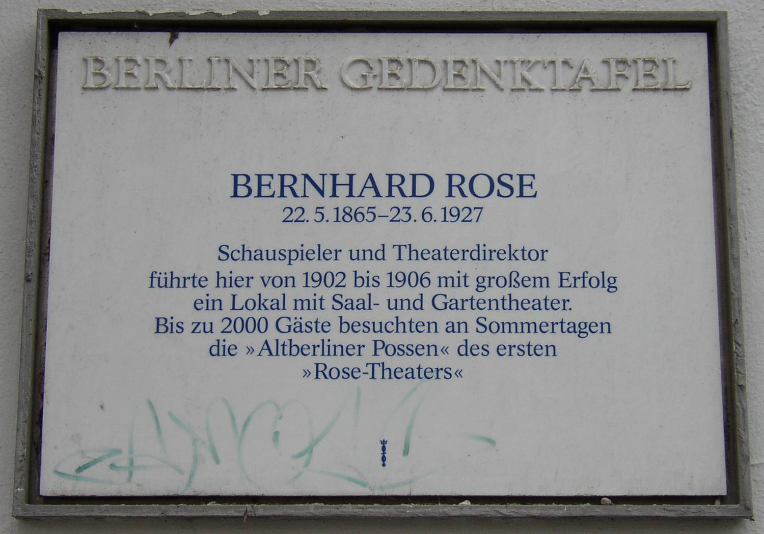 Berlin memorial plaque for Bernhard Rose in Berlin-Gesundbrunnen, Germany